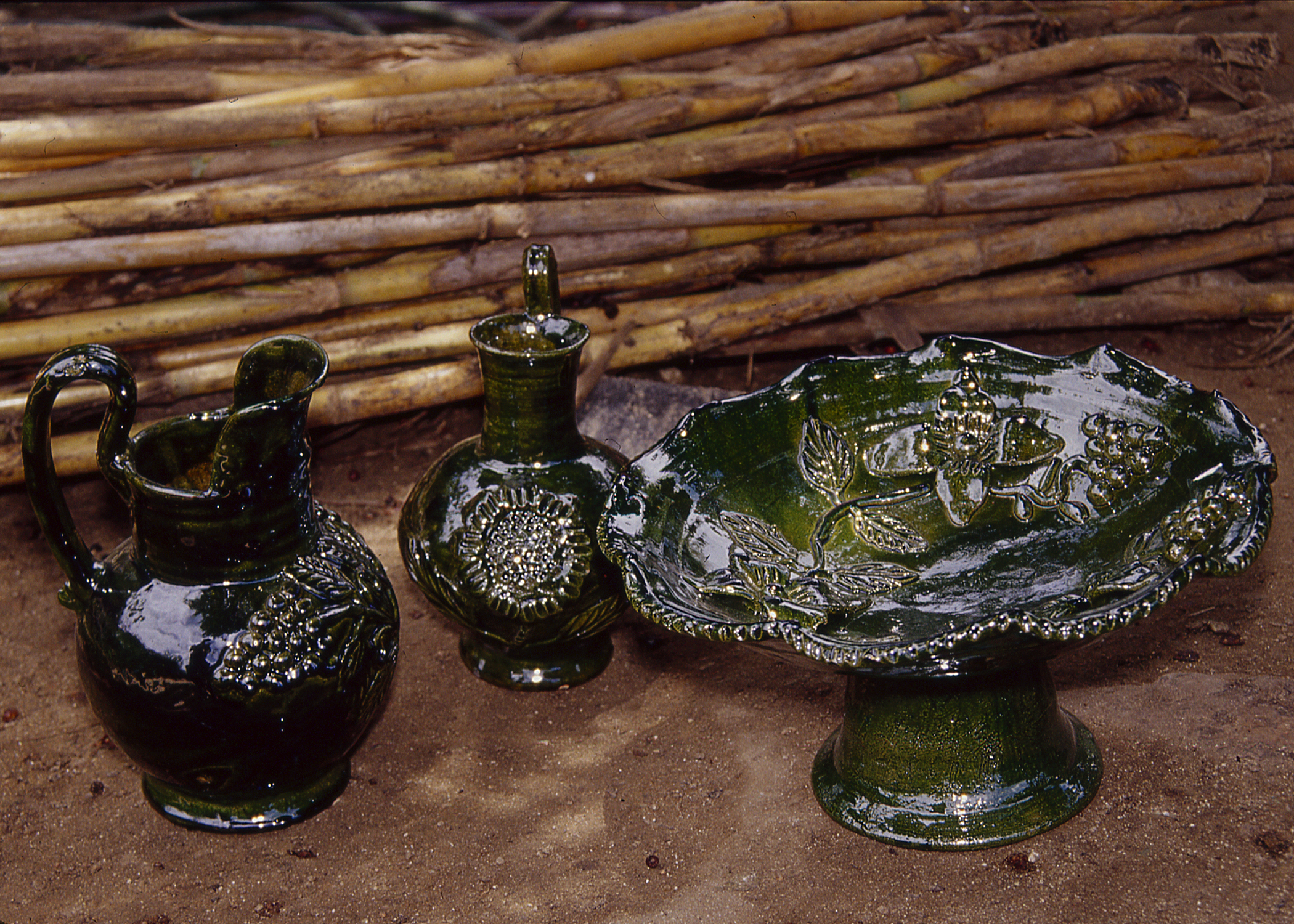 Green glazed pieces by Guadalupe Aguilar Guerrero of Santa Maria Atzompa, Oaxaca, Mexico